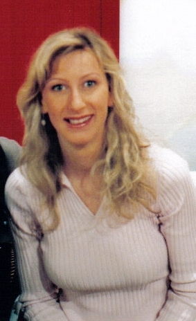 Aleksandra Socha, fencer from Poland